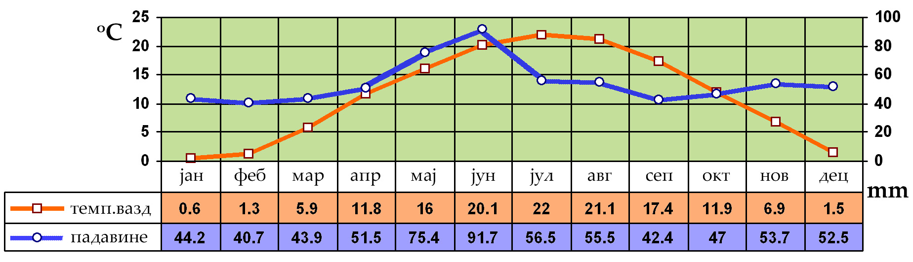 Mean air temperature and precipitation in Pancevo, Serbia (Rosarium Kis, Serbia)